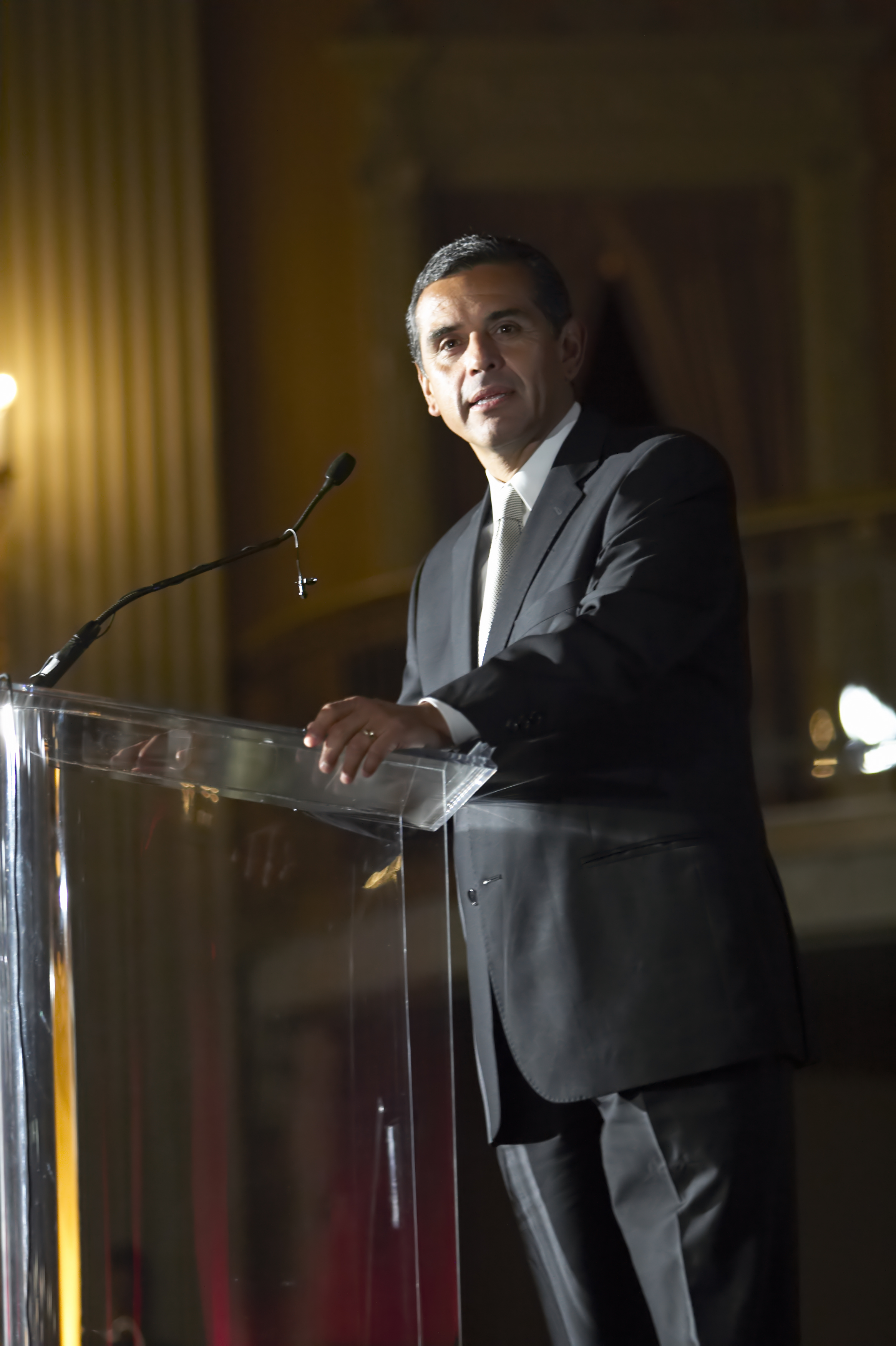 Mayor Antonio Villaraigosa speaking at the Filipino American Library Spirit Awards Dinner and GALA.